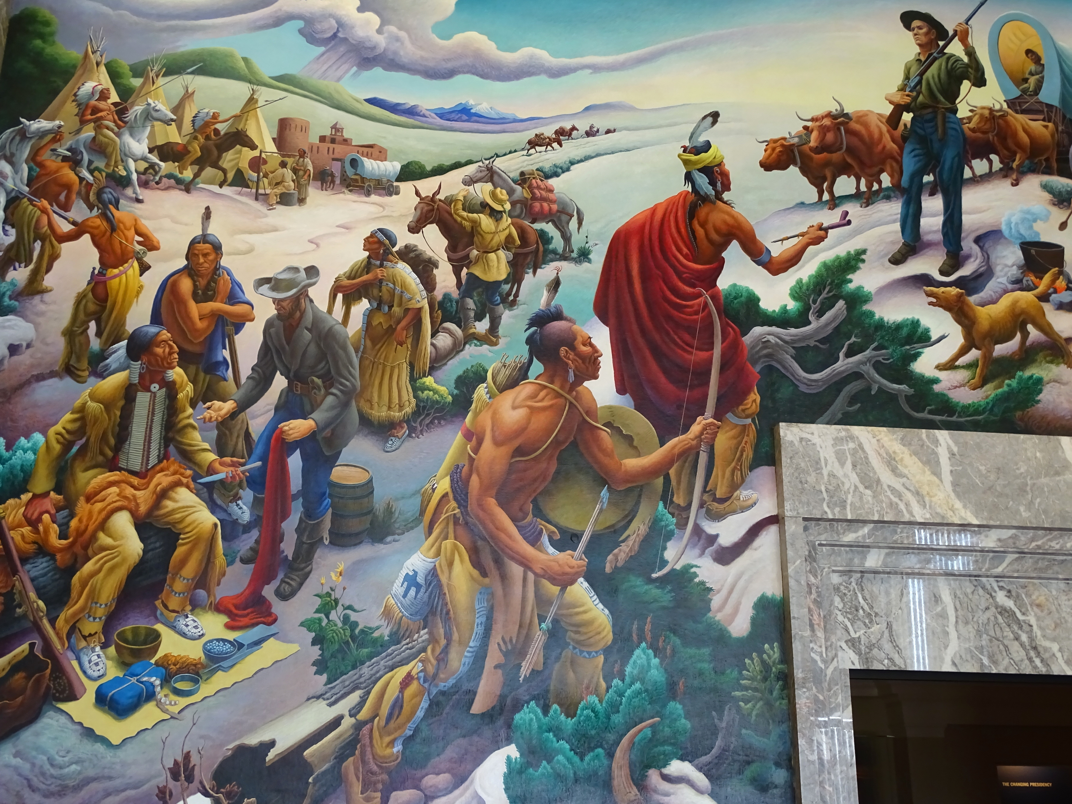 Detail of Thomas Hart Benton Mural - Harry S. Truman Presidential Library - Independence - Missouri - USA